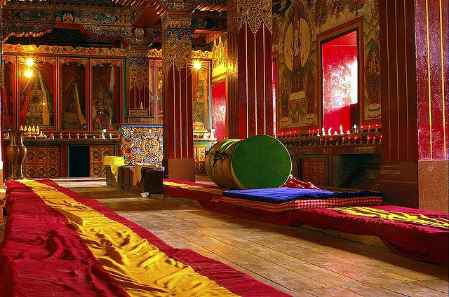 After a prayer session, inside the three-storeyed assembly hall of Tawang gompa (Galden Namgyel Lhatse monastery) in Tawang, Arunachal Pradesh, India.